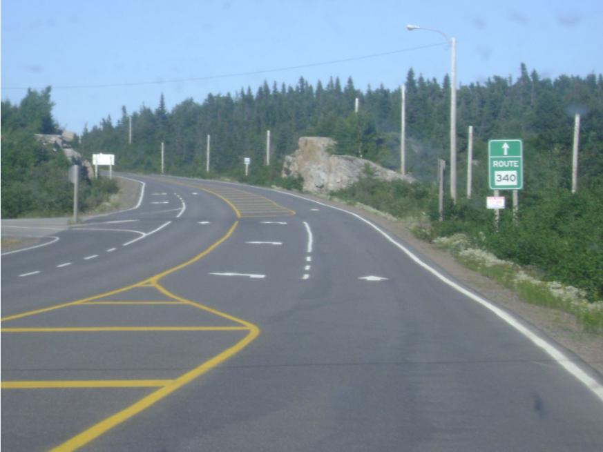 Route 340 (road to the isles) in Newfoundland and Labrador.